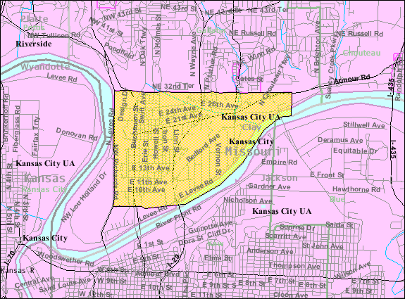 U.S. Census 2000 reference map for North Kansas City